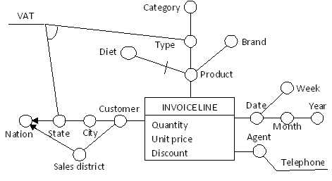 A complex fact schema for the invoice fact showing the advanced constructs of the Dimensional Fact Model